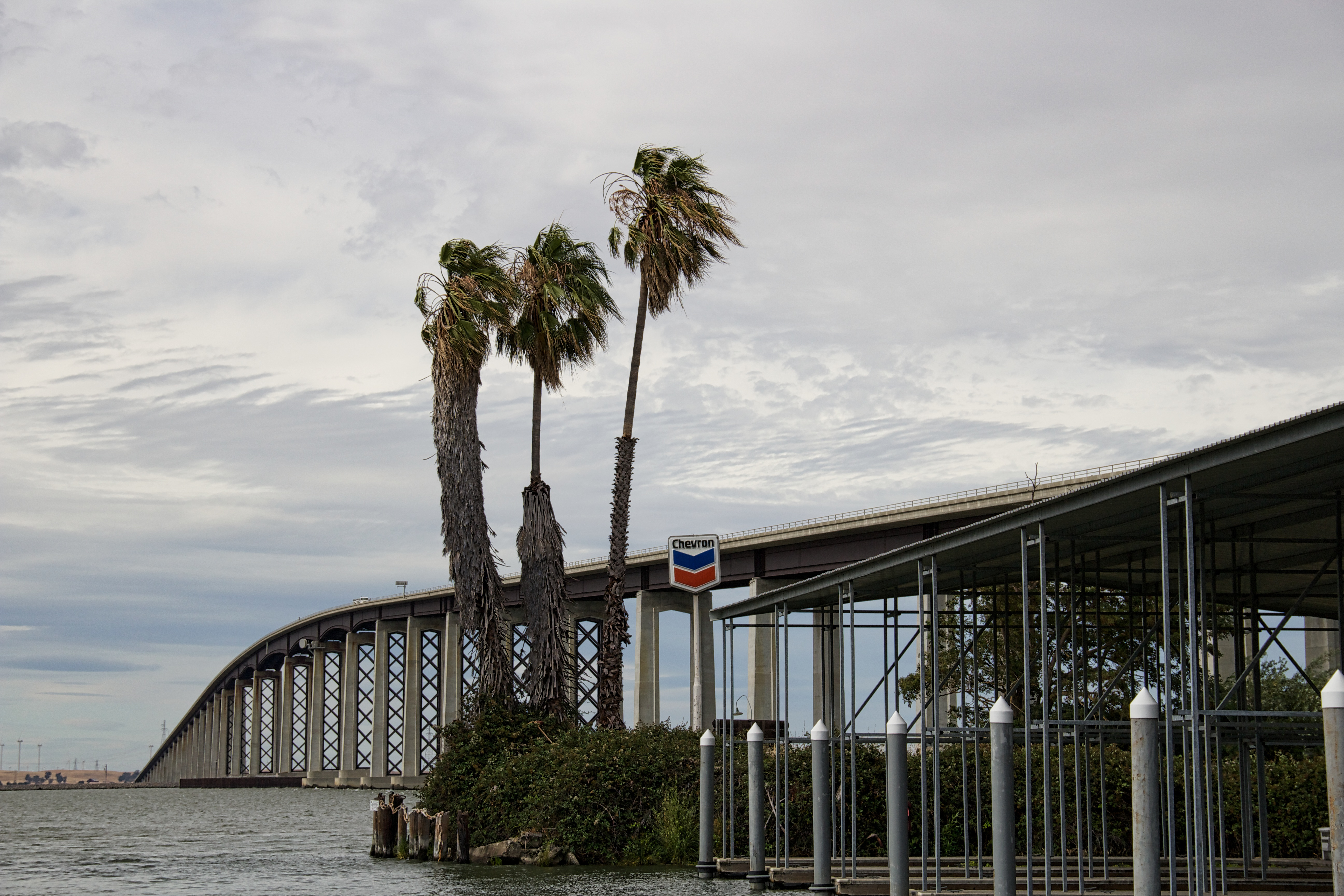 Sacramento-San Joaquin River Delta USFWS photo by Steve Martarano